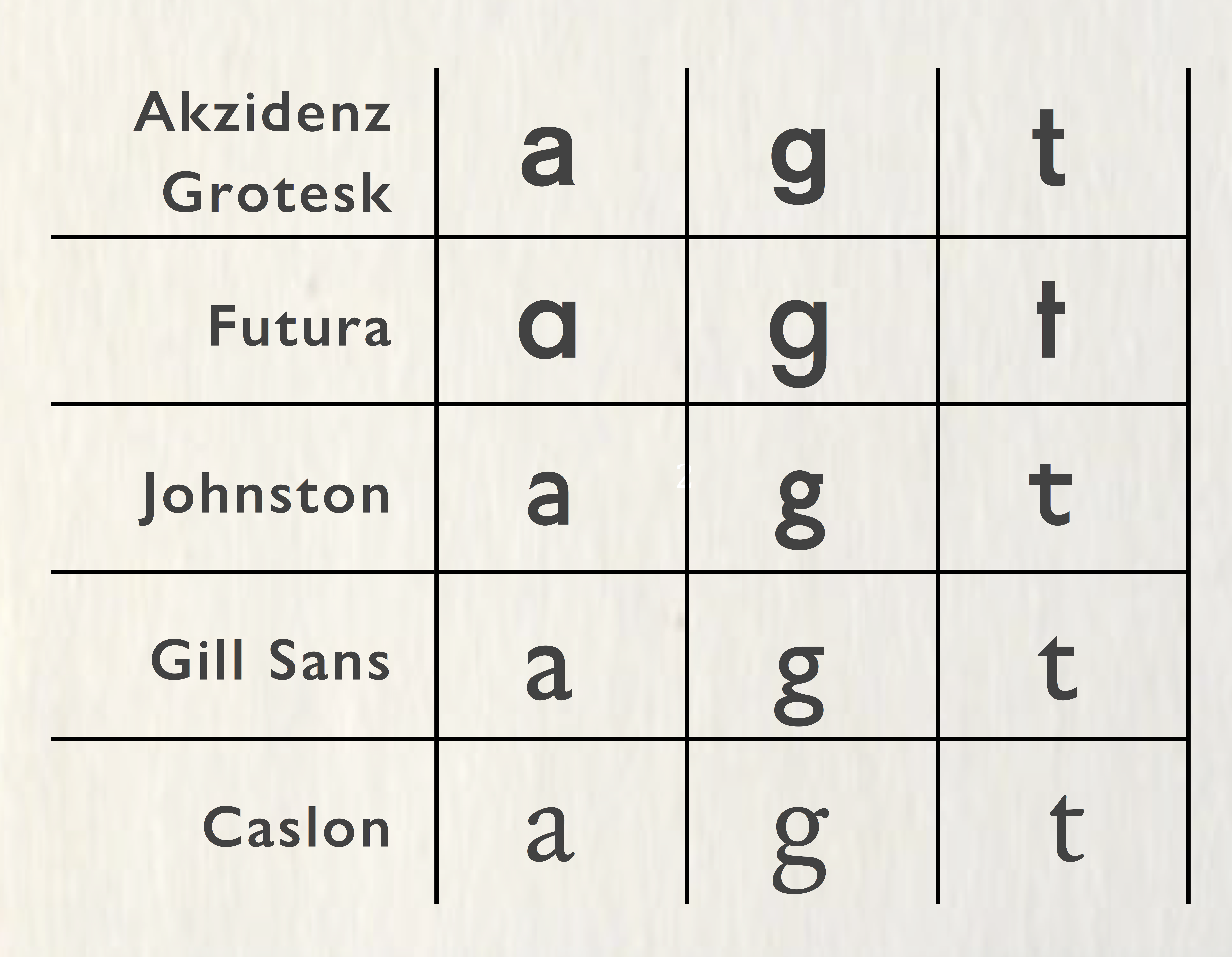 Gill Sans compared to other sans-serifs. Gill Sans does not use the single-story 'g' or 'a' used by many sans-serifs and is less monoline than its predecessor Johnston. Its structure is influenced by traditional serif fonts such as Caslon.